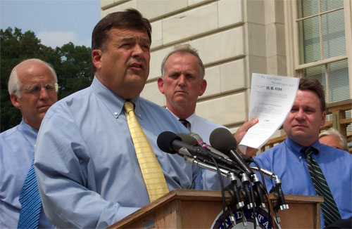 Congressman Dutch Ruppersberger of Maryland calls on Congress to create a cabinet level intelligence director.